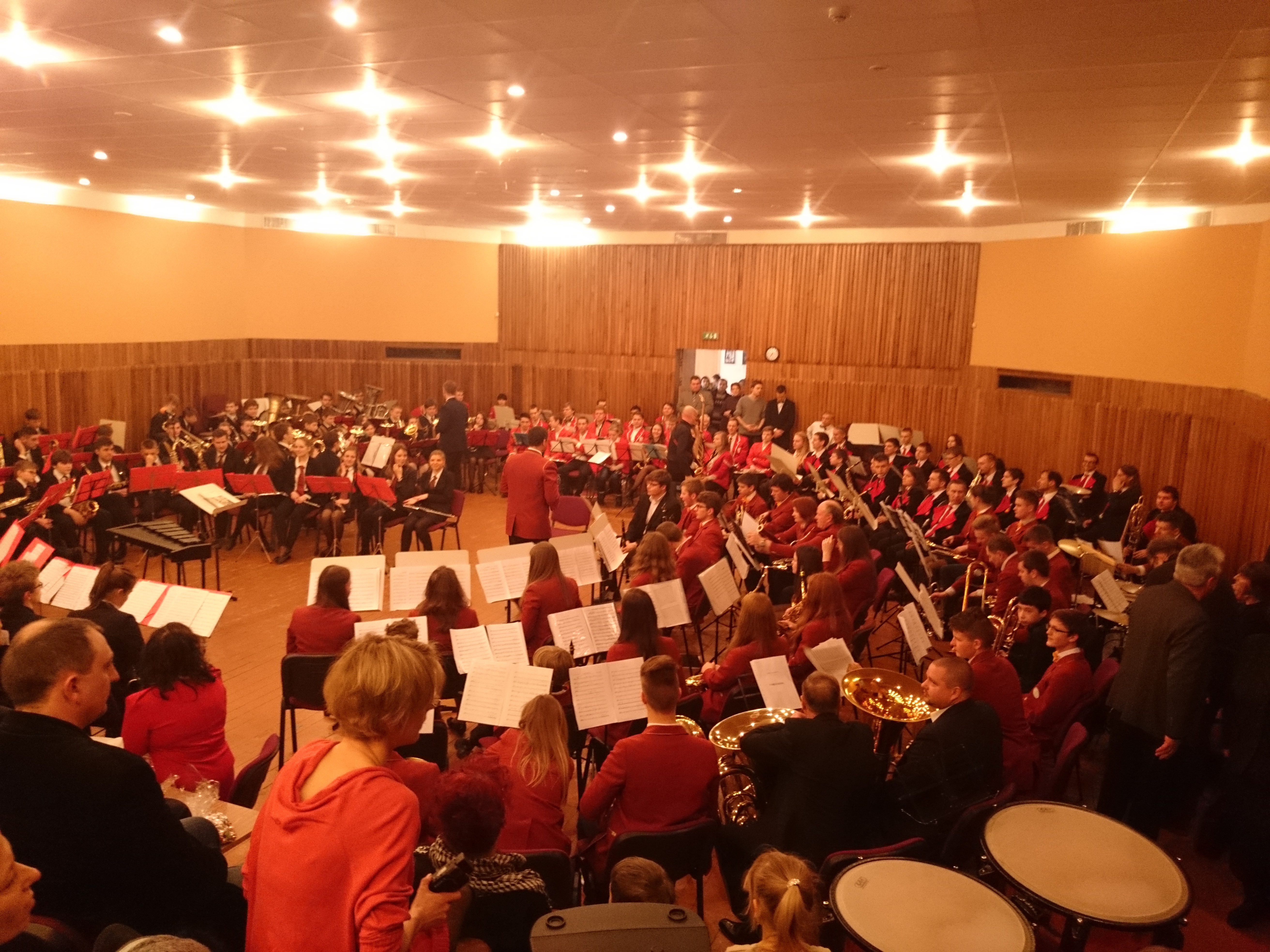 Trimitas